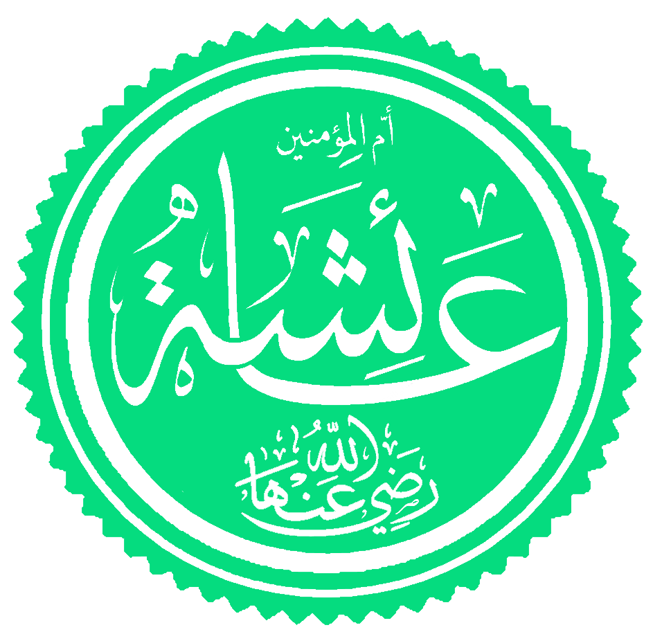 The name of Mother of Believers "Aisha" (May God pleased with her).